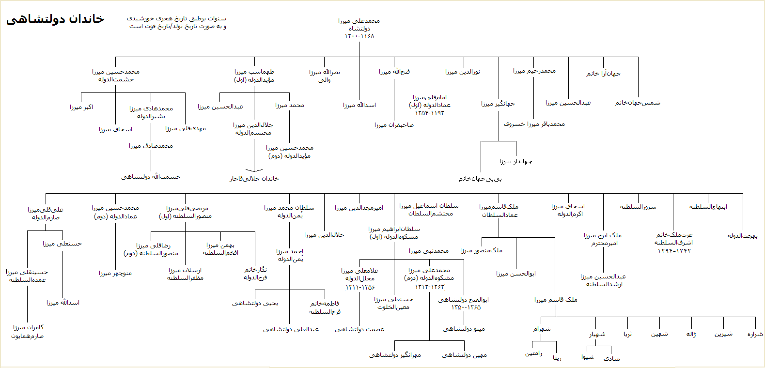 بر اساس آخرین تغییرات توسط شهرام دولتشاهی فرزند ملک قاسم میرزا (وفات 1377)